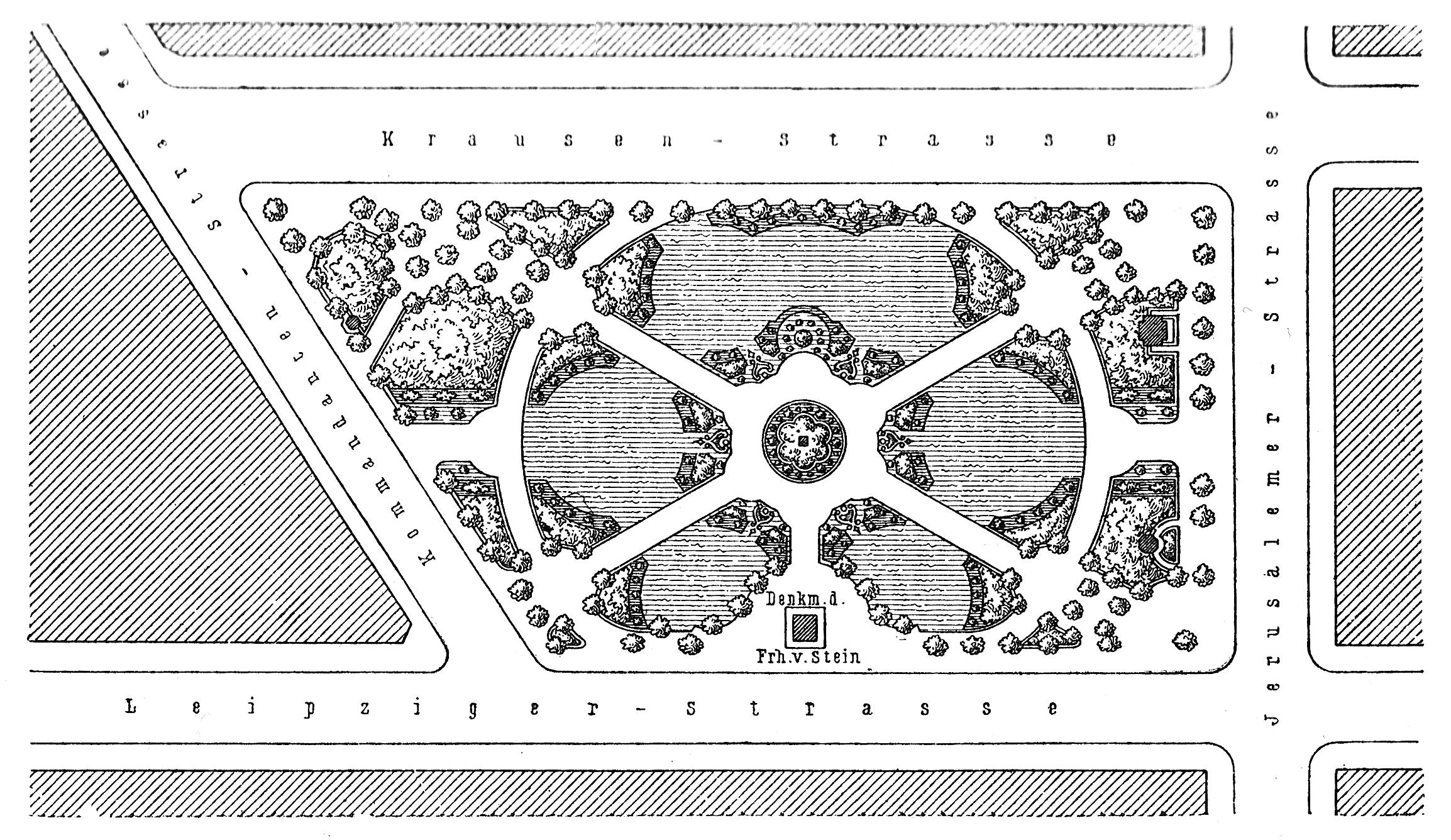 Berlin - Dönhoffplatz, situation plan around 1900